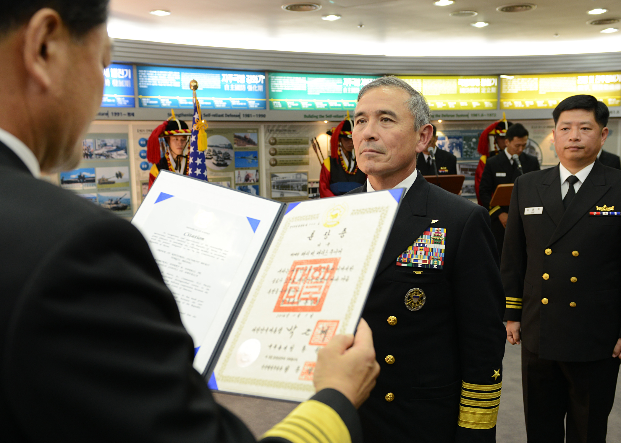 SEOUL, Republic of Korea (Nov. 3, 2014) Adm. Harry Harris Jr., commander of U.S. Pacific Fleet, stands at attention while being awarded the prestigious Korean Tong-il national defense medal by the Republic of Korea Chief of Naval Operations Adm. Hwang Ki-chul during a ceremony at the Republic of Korea Ministry of National Defense in Seoul. Adm. Harris met with senior military and government leaders during his visit to reaffirm the U.S. Navy's commitment to the alliance with the Republic of Korea and the ongoing U.S. rebalance to the Pacific. (U.S. Navy photo by Mass Communication Specialist 1st Class (SW/AW) Frank L. Andrews / Released)